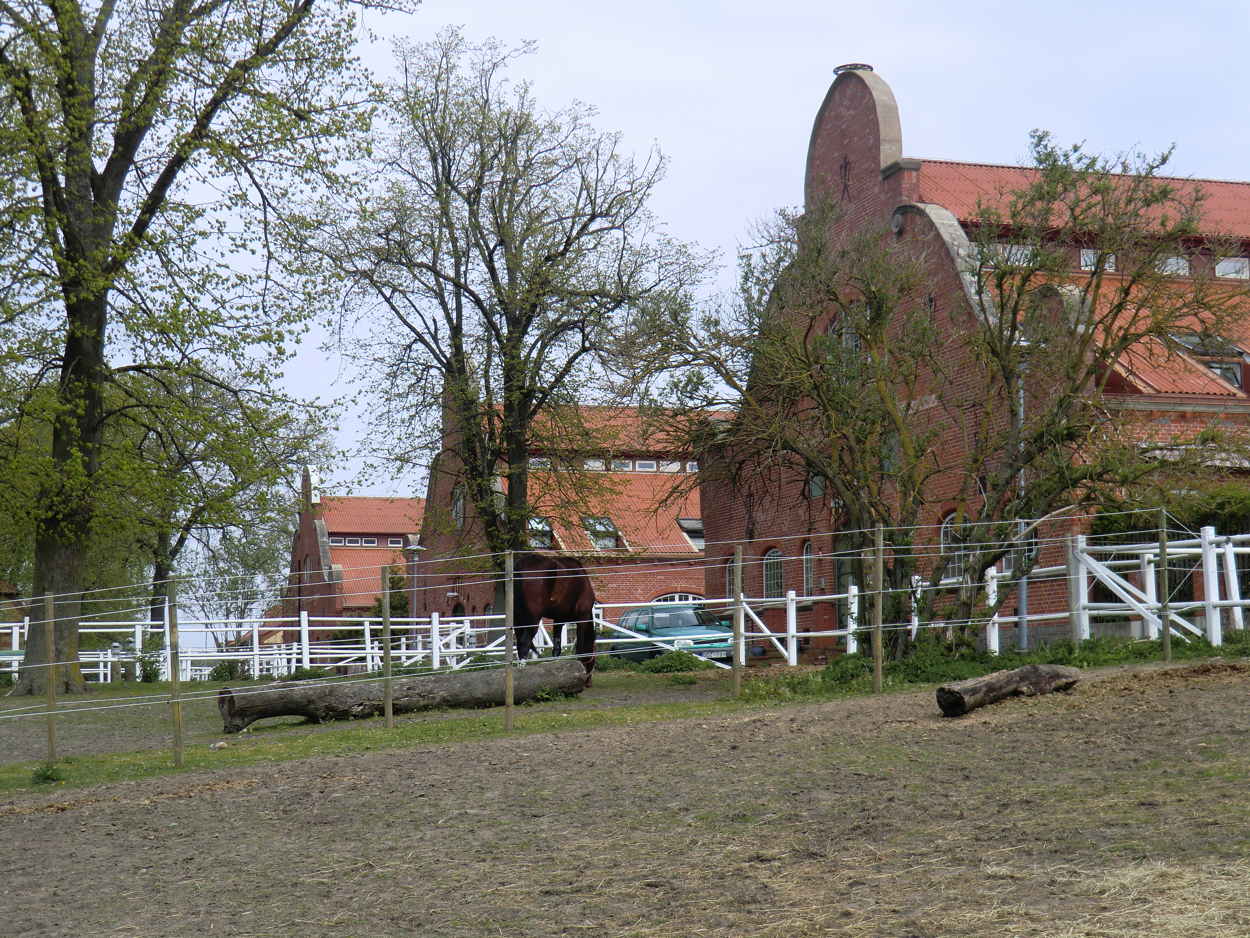 Arlövsgården, Burlöv Municipality, Sweden.